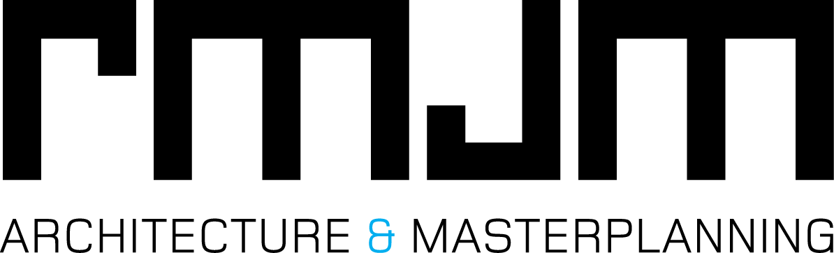 RMJM's official logo